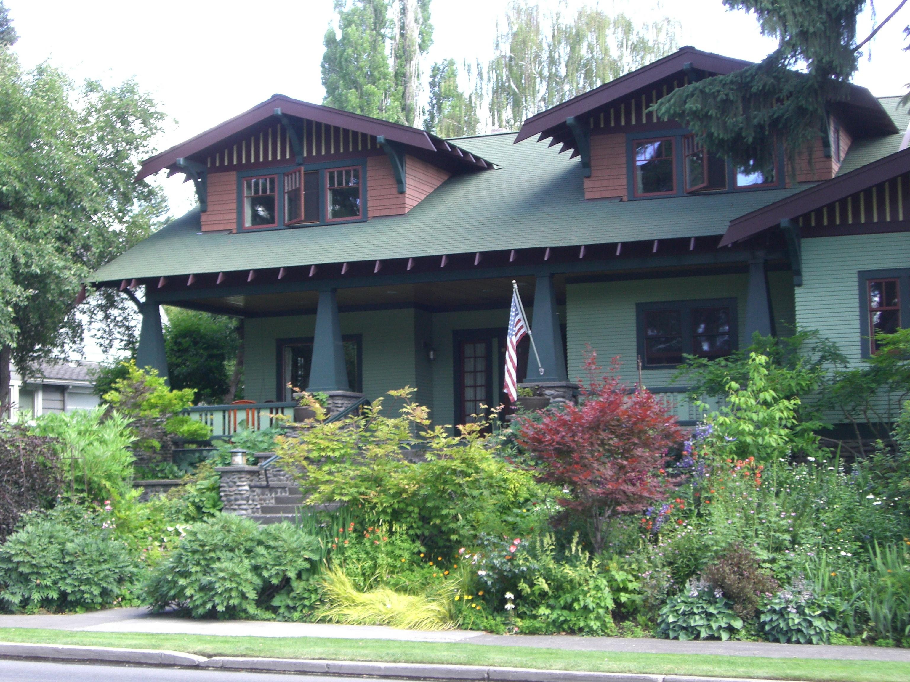 A house in the Drake Park Neighborhood Historic District, Bend, Oregon, United States.